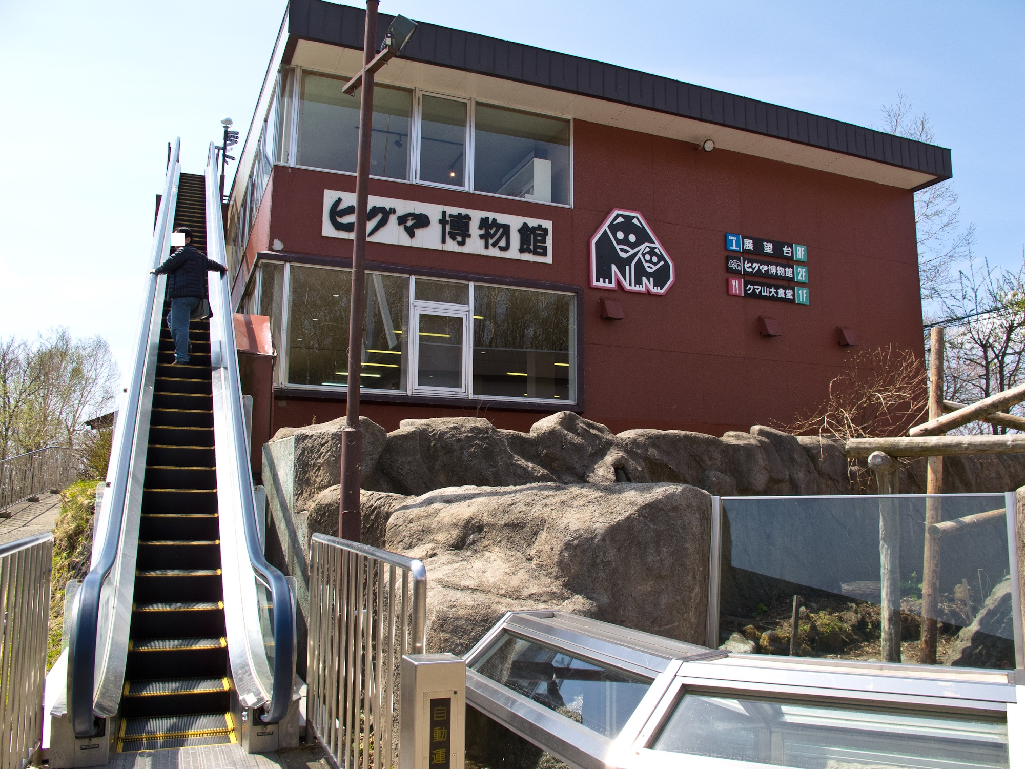 Brown Bear Museum in Noboribetsu bear park. Noboribetsu, Hokkaido, Japan.